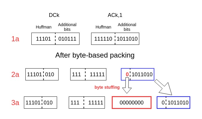 Entropy coded data. Byte stuffing.